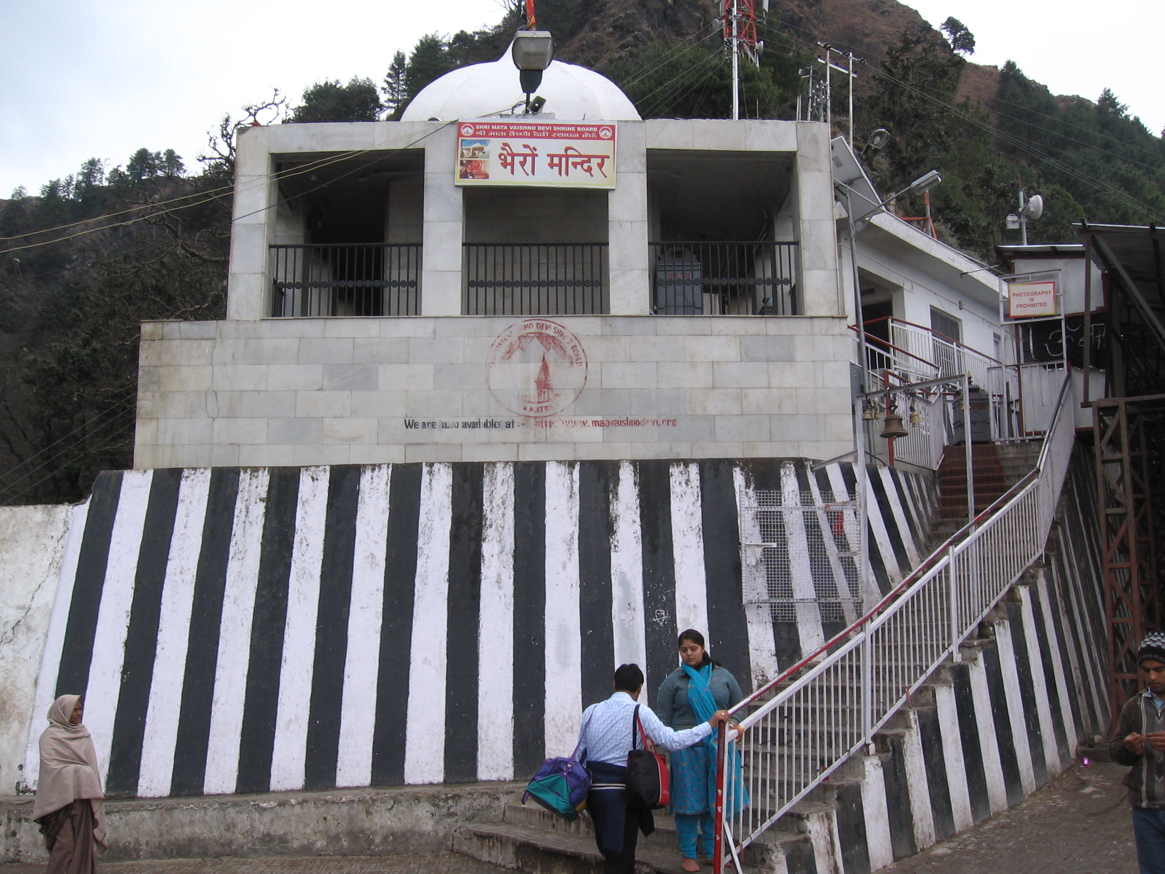 Bhairav Mandir in Jammu & Kashmir near Vaishno Devi shrine.